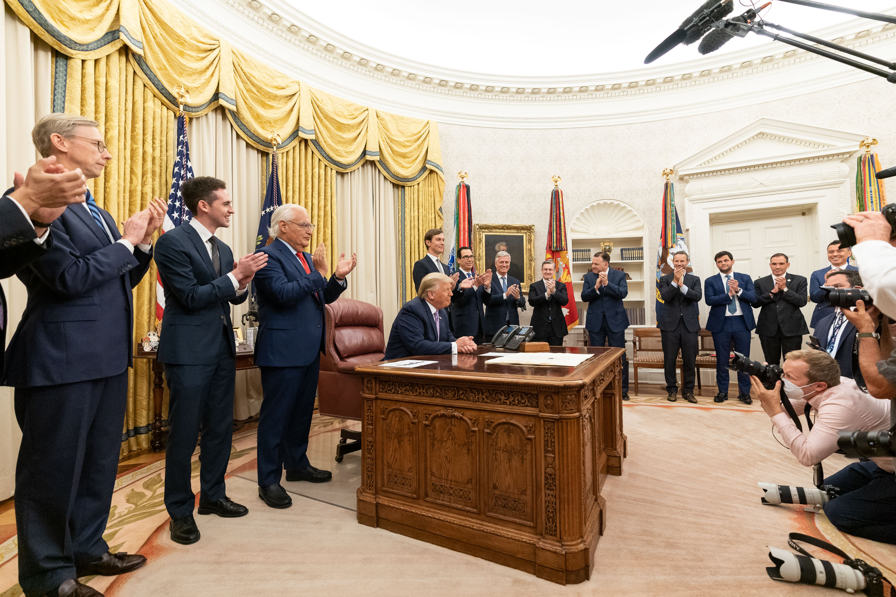 President Donald J. Trump, joined by White House senior staff members, delivers a statement announcing the agreement of full normalization of relations between Israel and the United Arab Emirates Thursday, Aug. 13, 2020, in the Oval Office of the White House. (Official White House Photo by Joyce N. Boghosian)